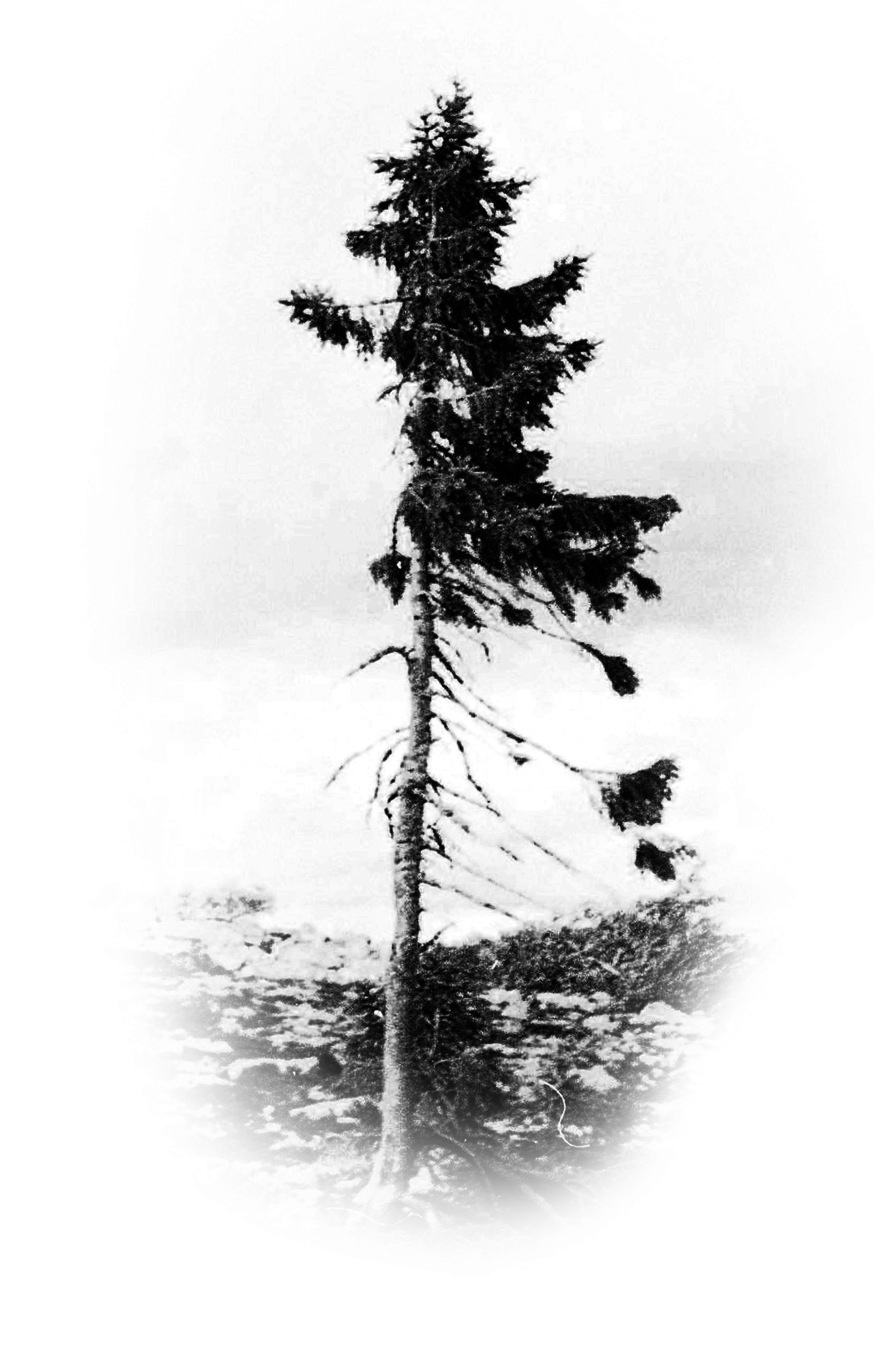 Old Tjikko, 9,550 year old. Located on Fulufjället Mountain of Dalarna province in Sweden. Old Tjikko is the world's oldest living individual clonal tree.